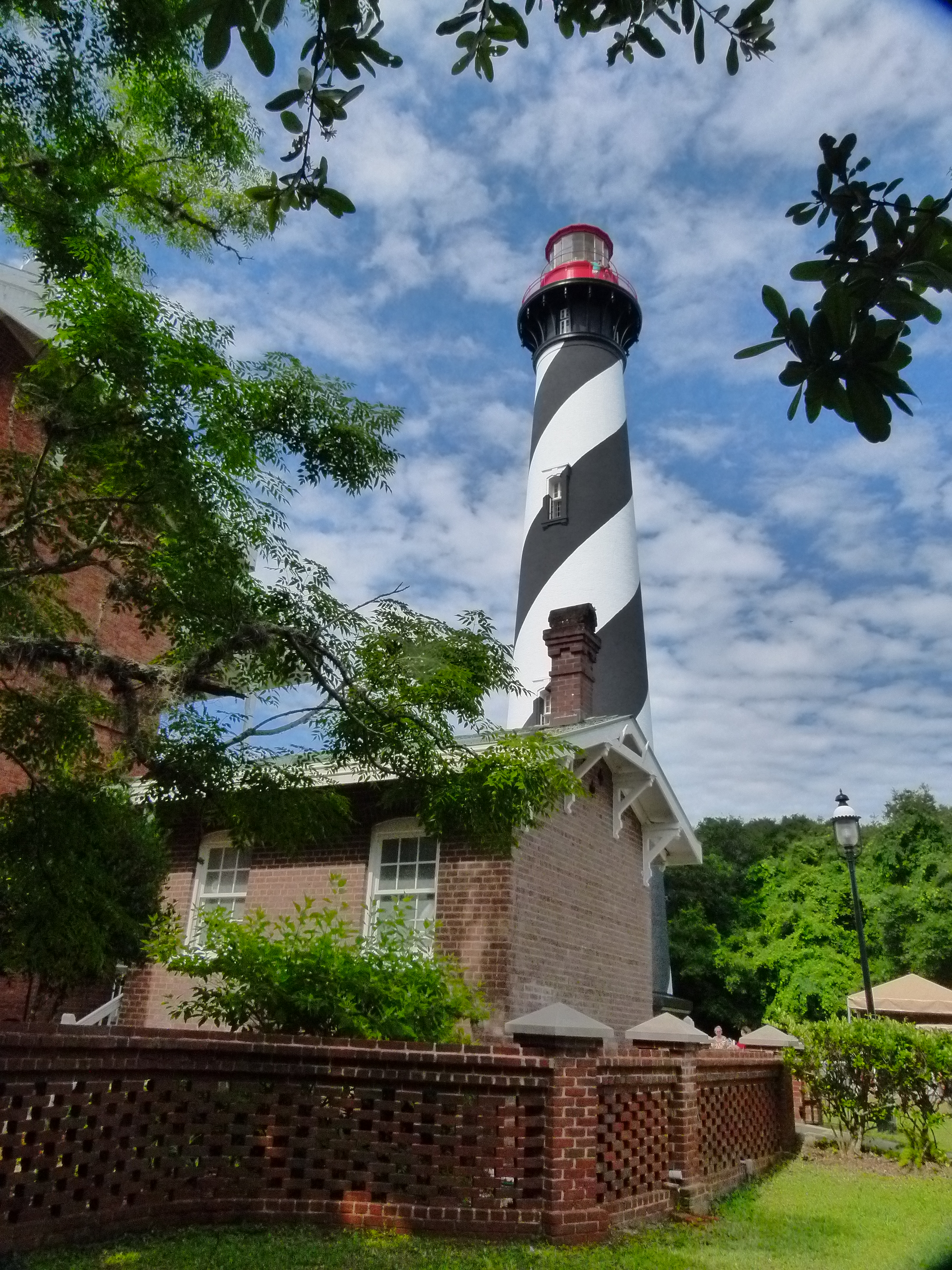 St. Augustine Lighthouse